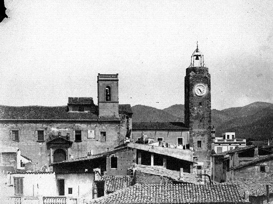 Clock Tower and Santa Maria's Church before 1936 (Olesa de Montserrat, Catalonia)